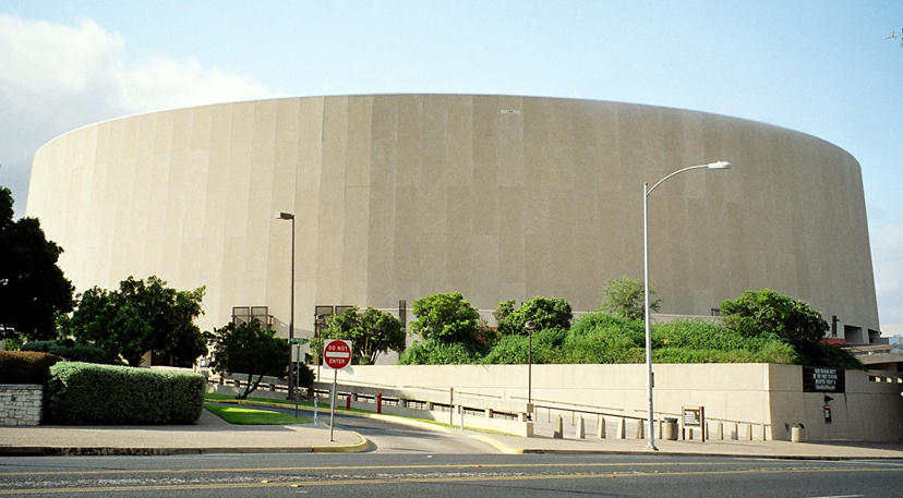 The Frank Erwin Center from the west side. Located in Austin, Texas, United States.